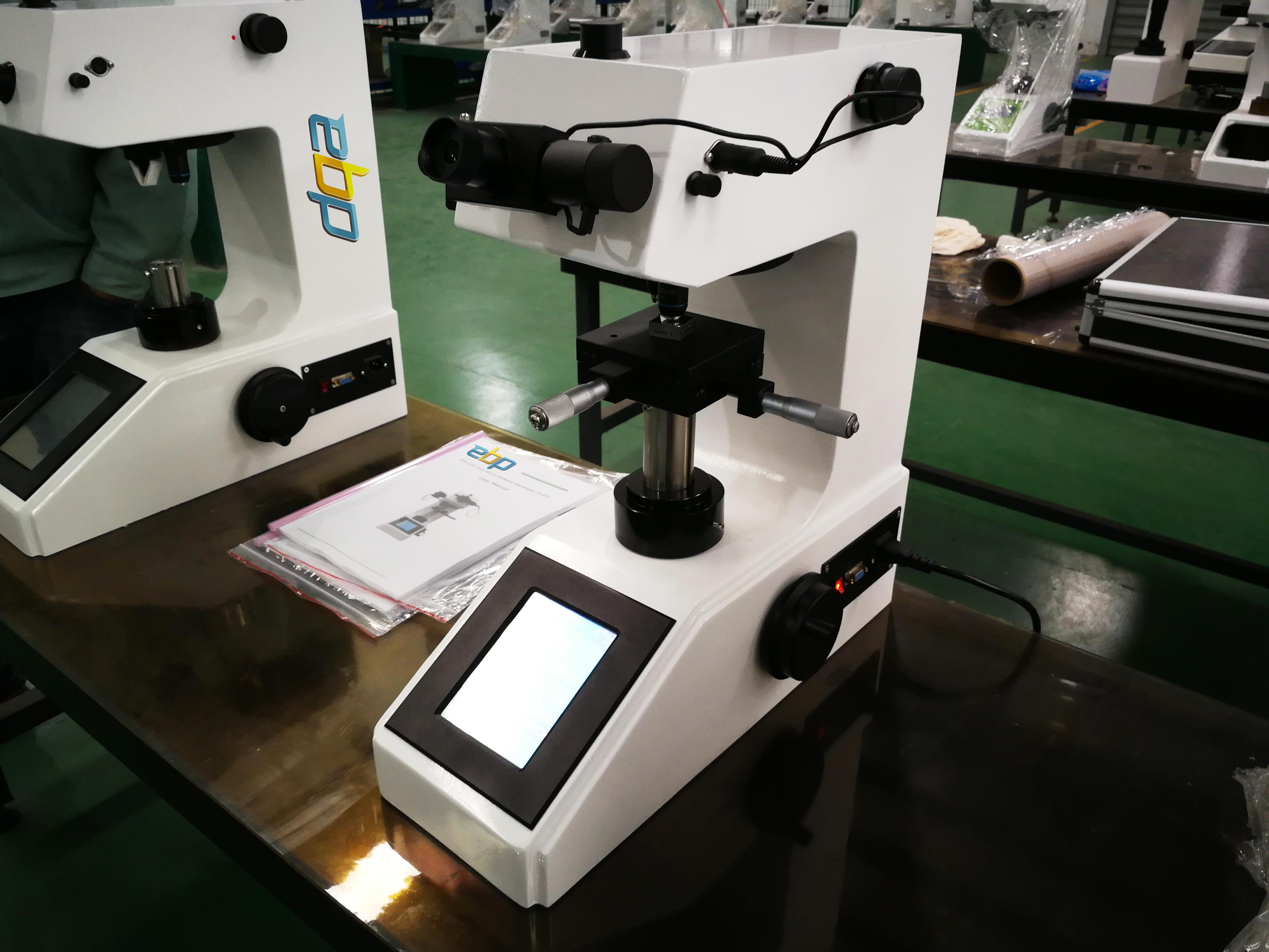 Touch screen Micro Vickers hardness tester, 5.6 inch touch screen, test force 10gf to 1000gf